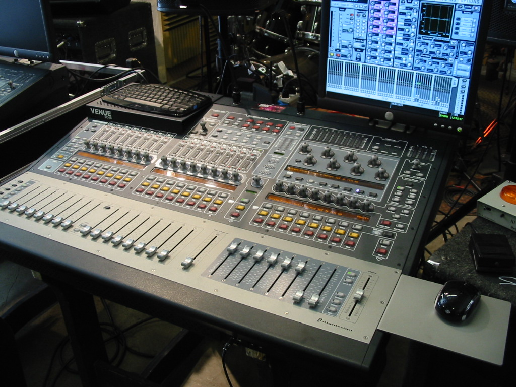 Avid/Digidesign Venue SC48 digital mixer being tested in a sound company shop. Image shows an LCD monitor mounted to the mixer at the upper right, and computer keyboard sitting on a removable, vented shelf at the upper left. A wireless USB mouse rests on a removable mouse shelf at the lower right.